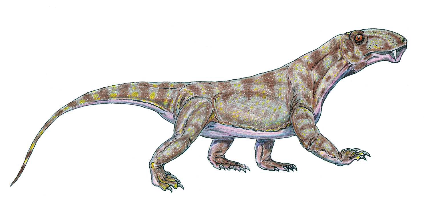 Biarmosuchus - reconstruction autor - Bogdanov